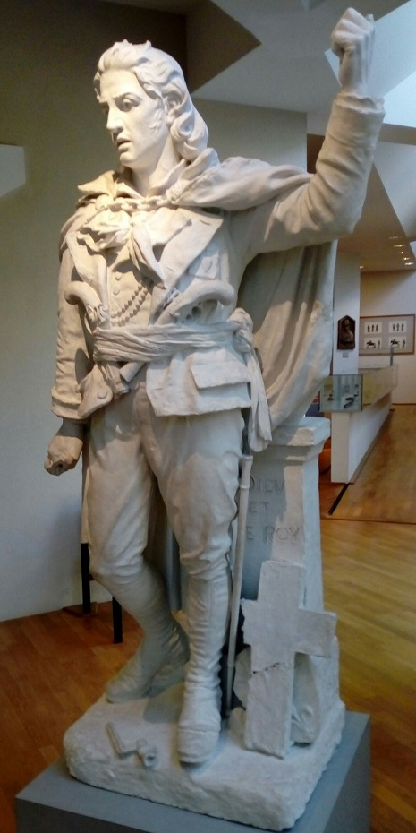 Source : Cholet Museum of Art and History